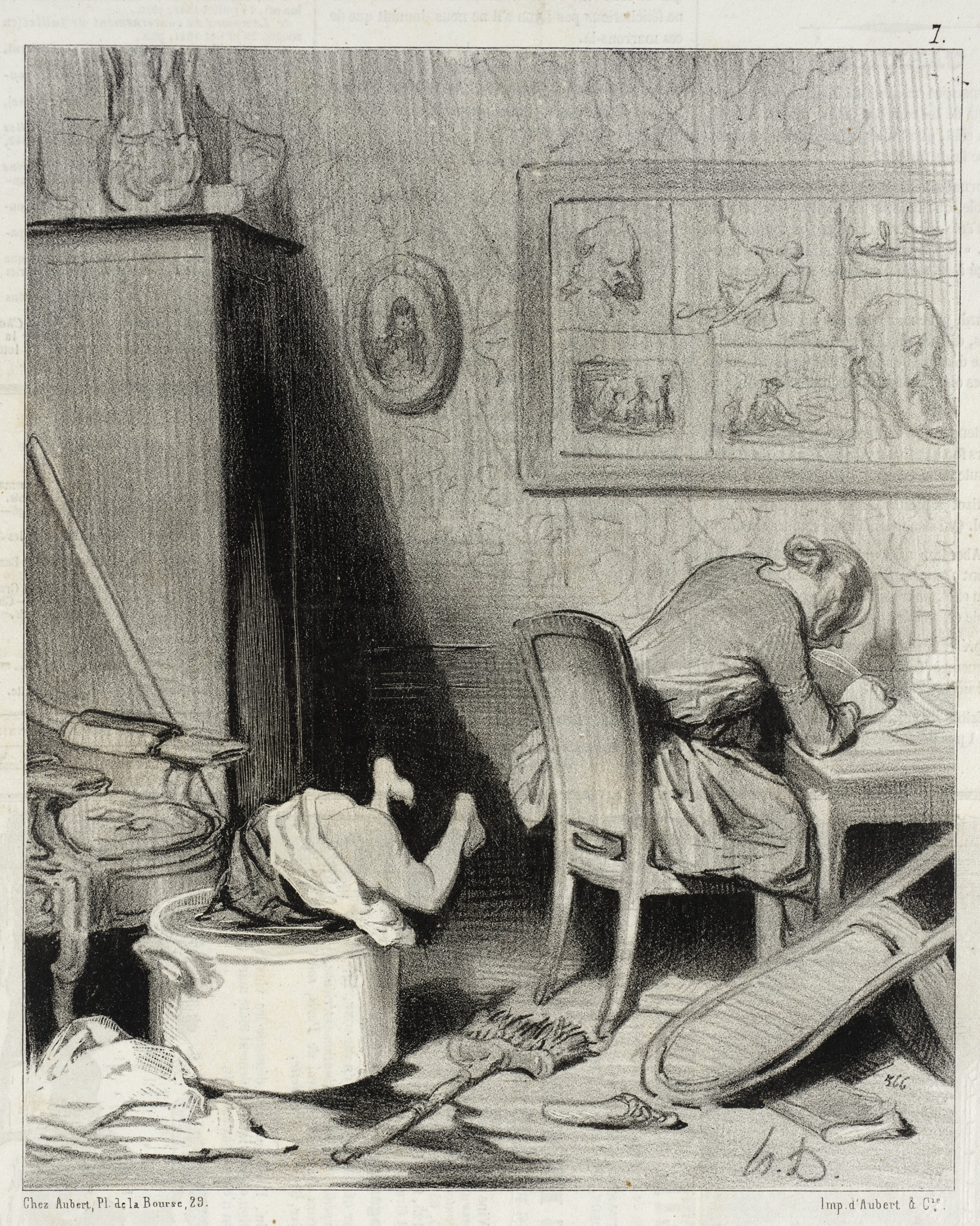 France, 1844 Series: Les Bas-blues, no. 7 Periodical: Le Charivari, 26 February 1844 Prints; lithographs Lithograph Sheet: 9 3/16 x 7 1/2 in. (23.34 x 19.05 cm) Gift of Mrs. Florence Victor from The David and Florence Victor Collection (M.91.82.167) Prints and Drawings